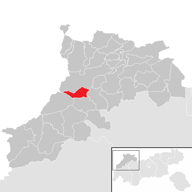 District Reutte